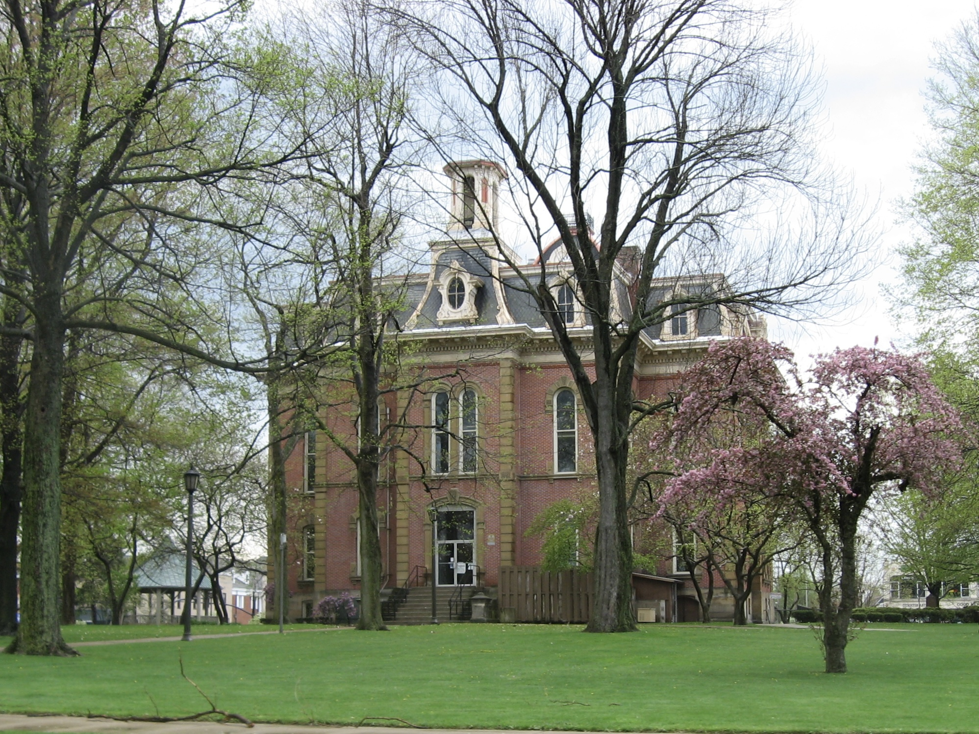 Rear of the Coshocton County Courthouse, located on the courthouse square (Chestnut, Main, Third, and Fourth Streets) in downtown Coshocton, Ohio, United States. Built in 1873, it is listed on the National Register of Historic Places.